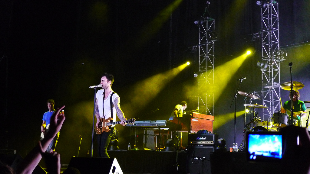 Maroon 5 live show in Hong Kong, China.